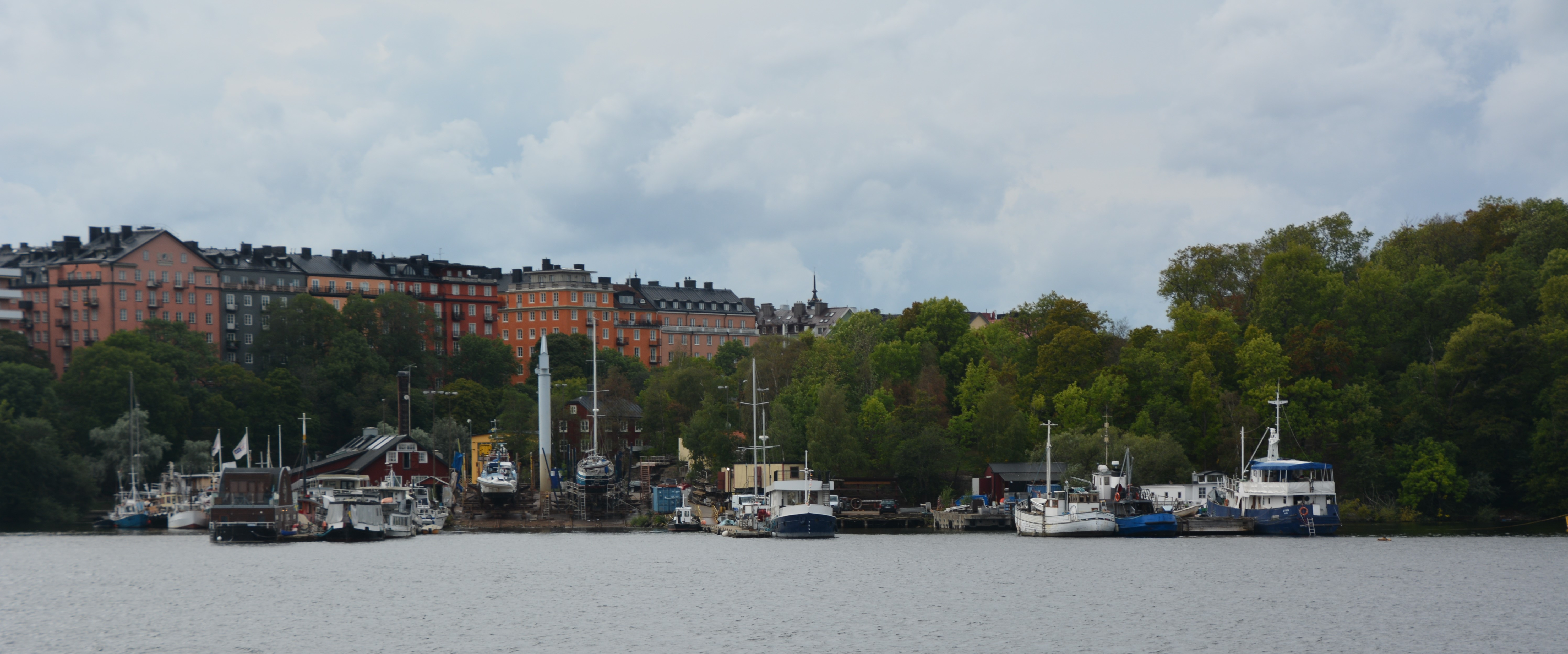 Långholmsvarvet, Stockholm